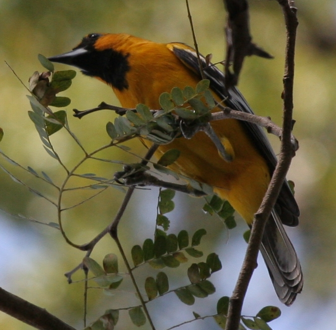 Streak-backed Oriole Icterus pustulatus, el Coco Beach, Costa Rica. Photograph by Emmanuel Miranda-Steiner